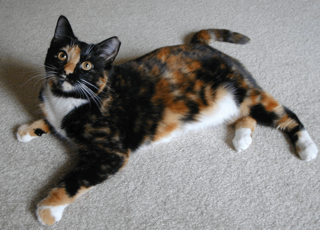 Aww...... look at the cute little kitty..... Commons:Category:Felis silvestris catus